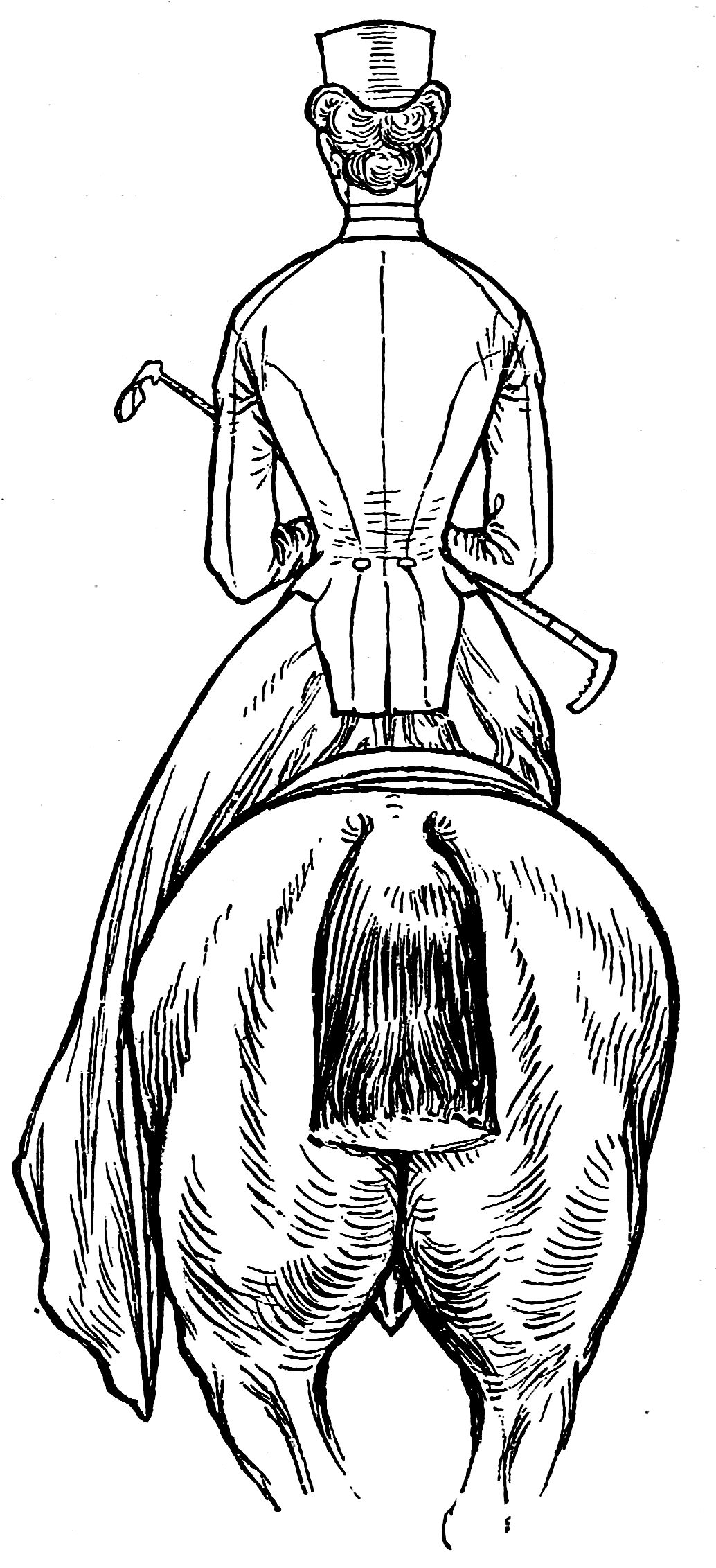 Image from book Horsemanship for Women by Theodore Hoe Mead